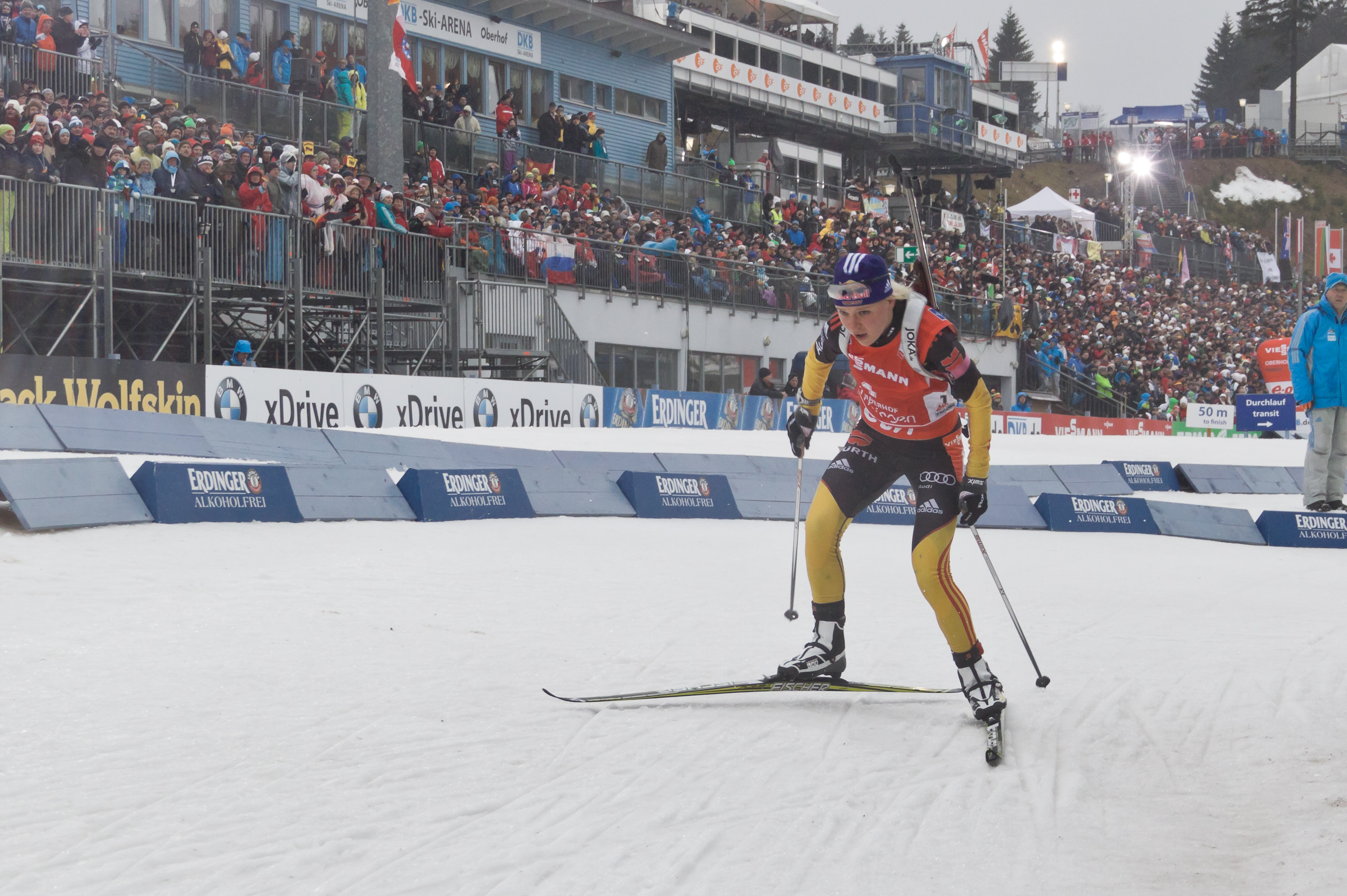 German biathlete Miriam Gössner in world cup pursuit race in Oberhof.